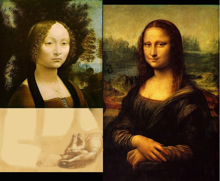 Collage of Leonardo's portrait of Ginevra Benci with missing hands known from drawing